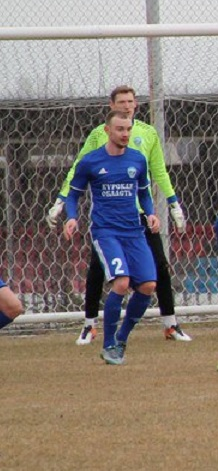 Сергей Шумейко